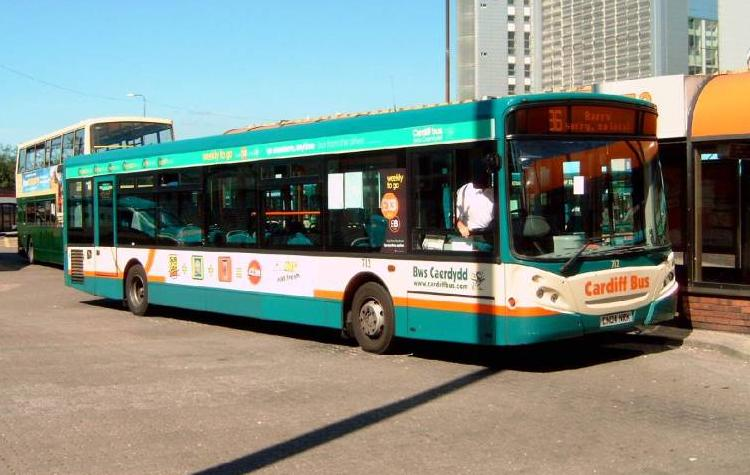 One of Cardiff Bus' TransBus Enviro300 in Cardiff en route to Barry.